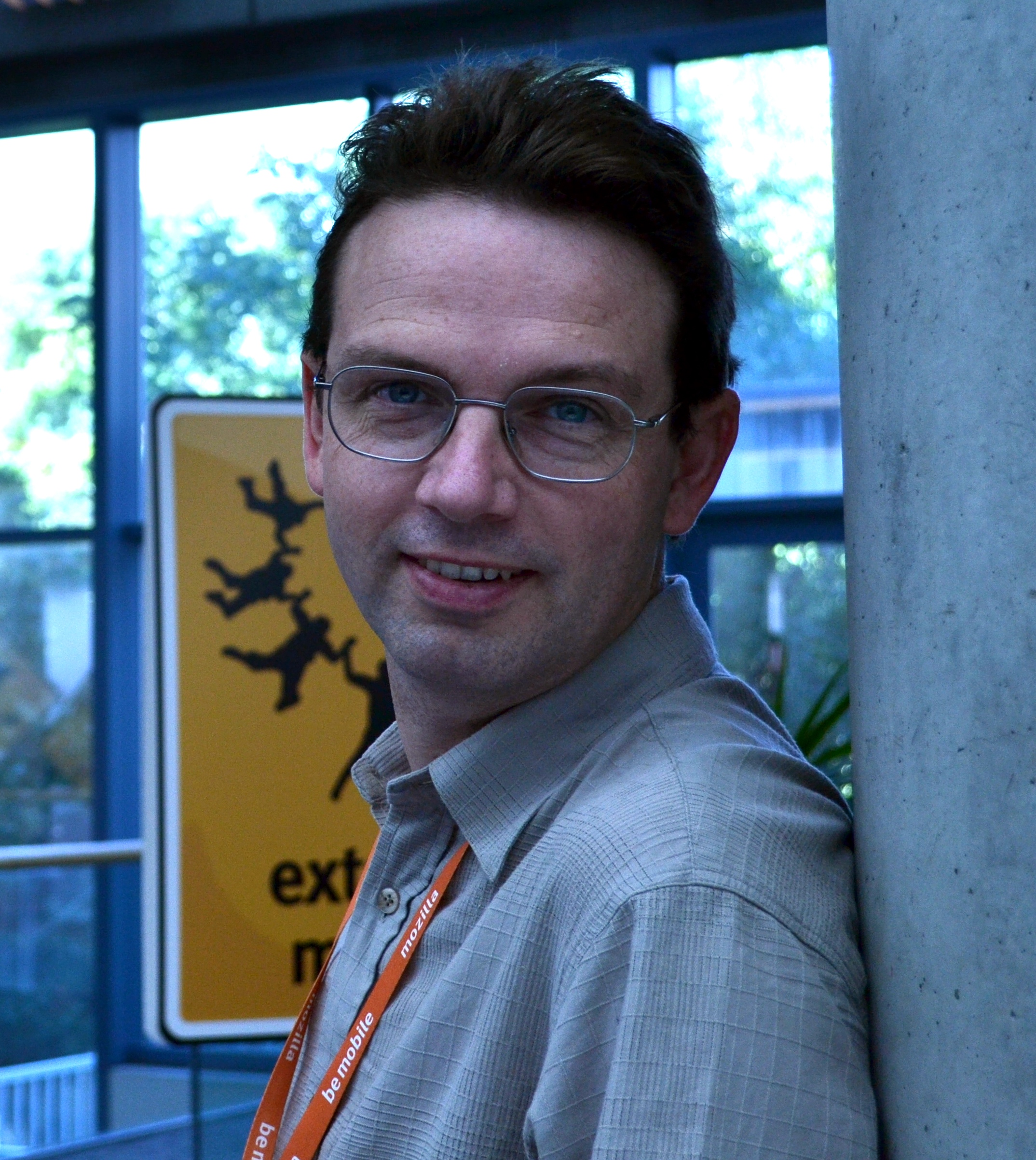 Julian Seward, taken September 15th 2011 in San Jose, California